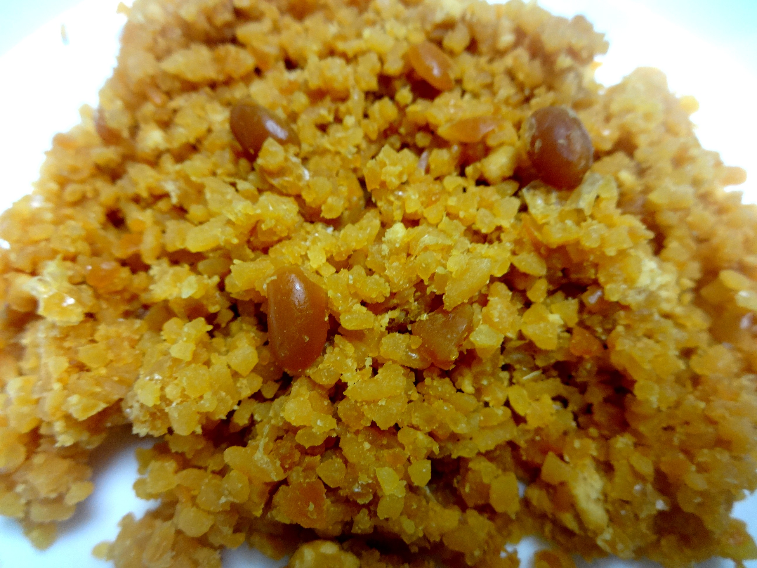 Fermented soybean paste with starch from Cycas revoluta seeds in Amami Oshima, Japan